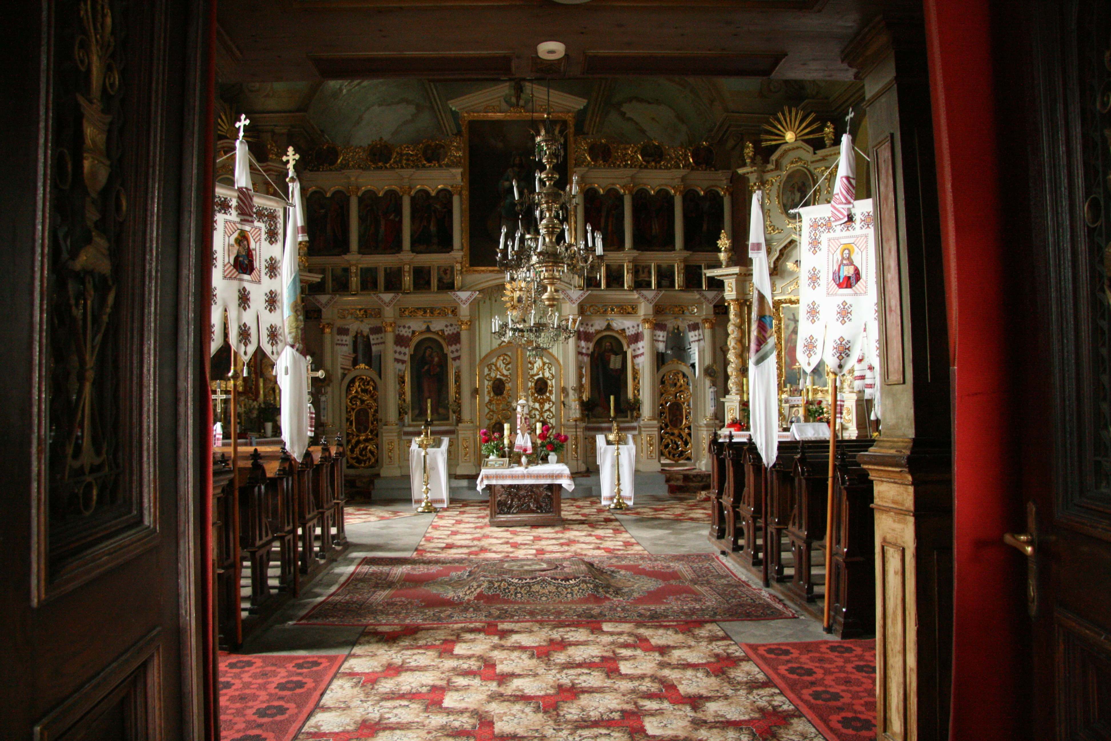 A view inside of The Orthodox Holy Trinity Cathedral in Sanok, Poland